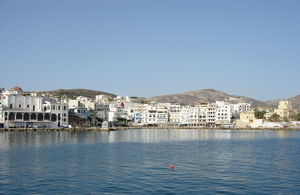 Pigadia, capital of Karpathos